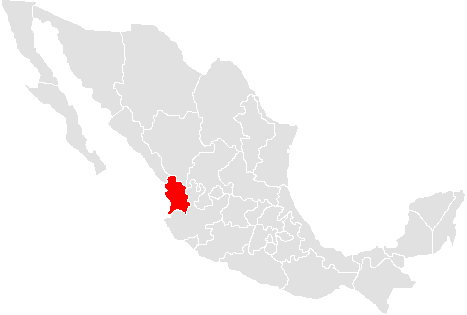 A map of the Mexican state of nayarit made by me